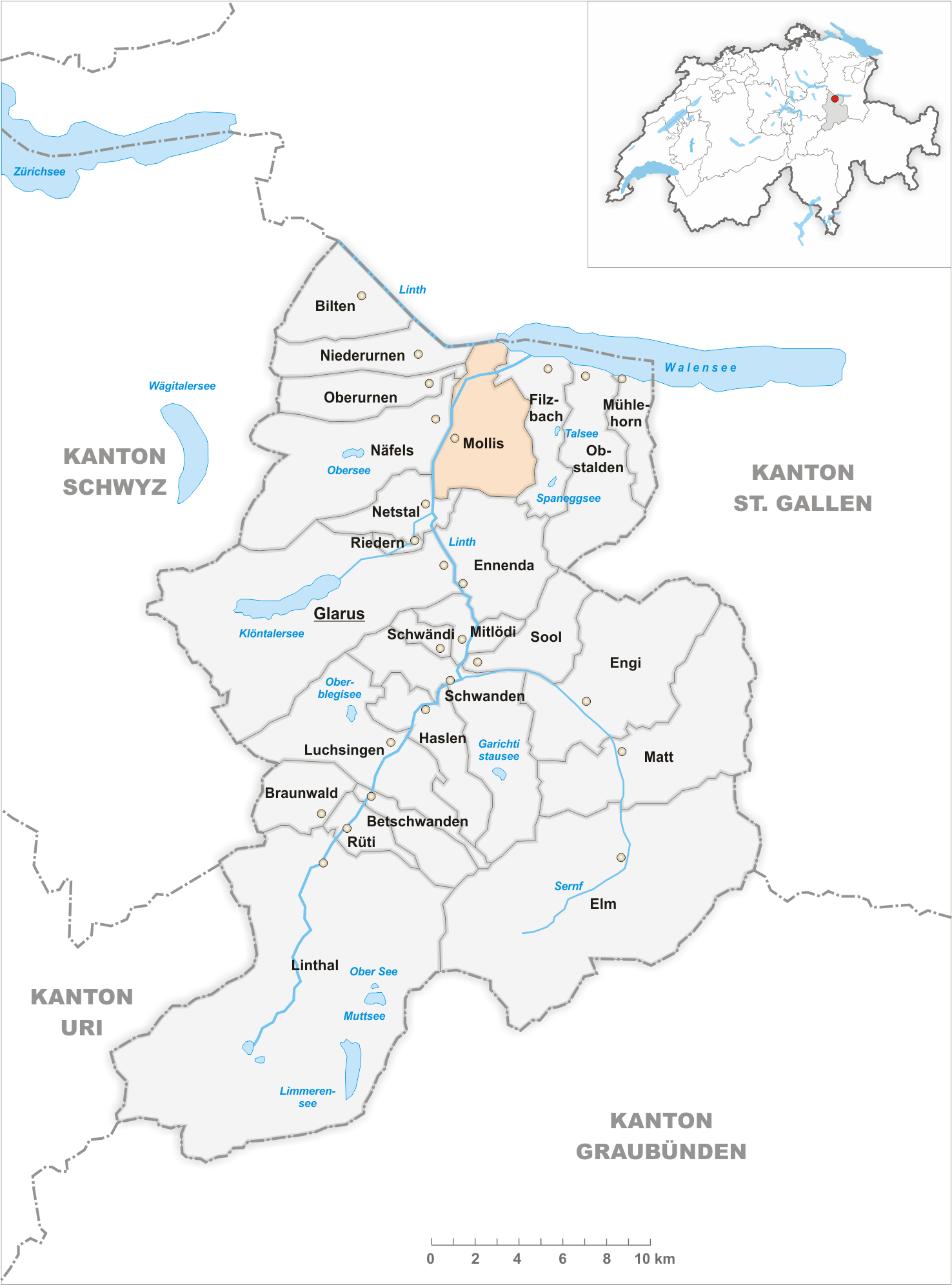 Municipality Mollis